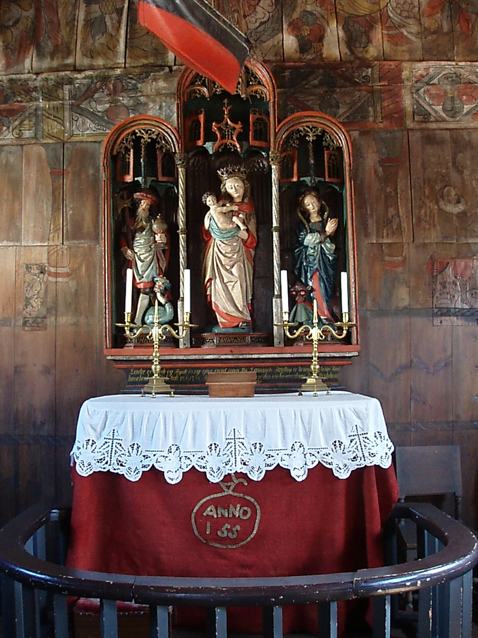 Altar in Grip stave church in Kristiansund municipality in Møre og Romsdal county in Norway.